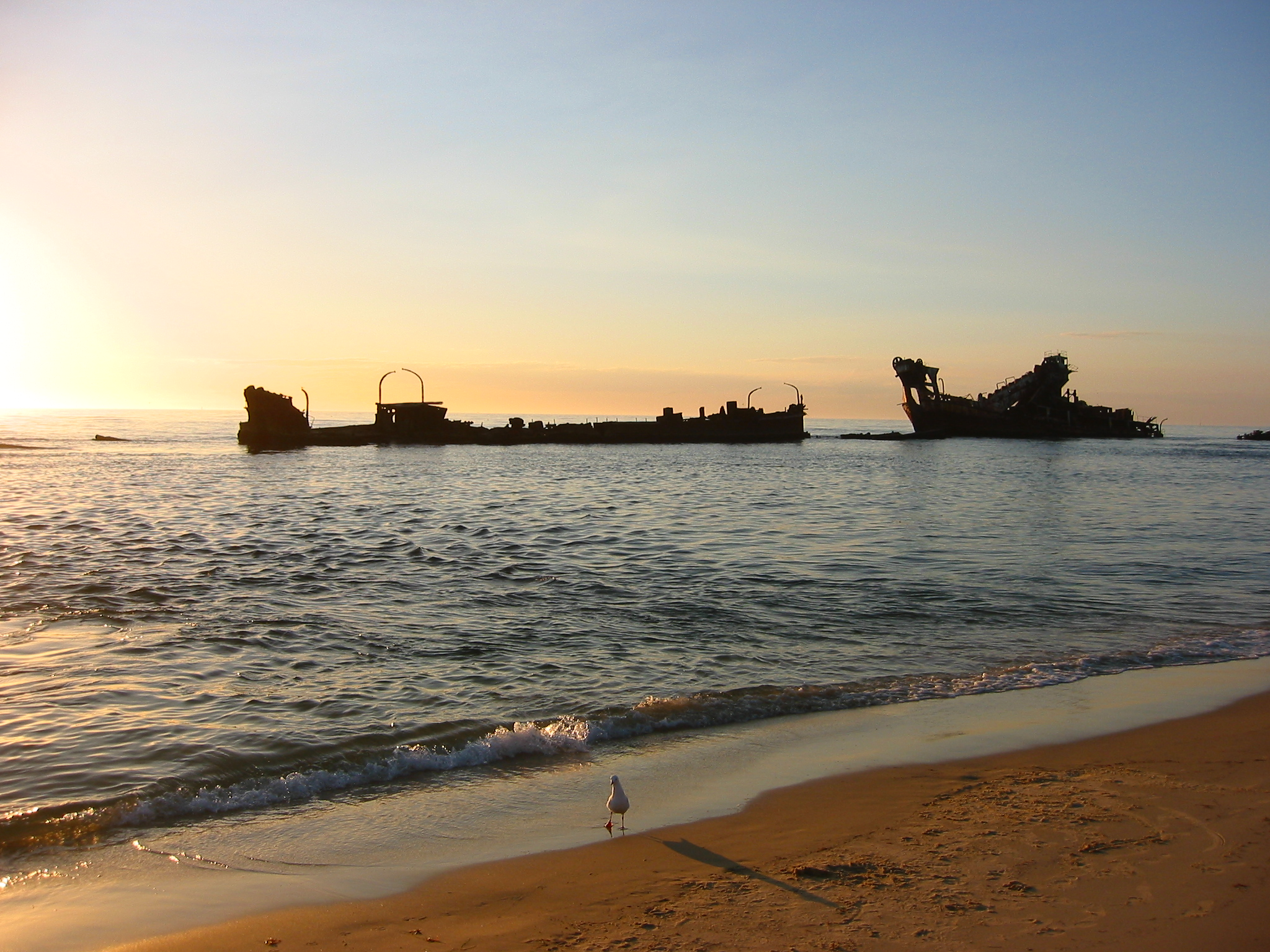 Shipwrecks on the western coast of Moreton Island, Australia.